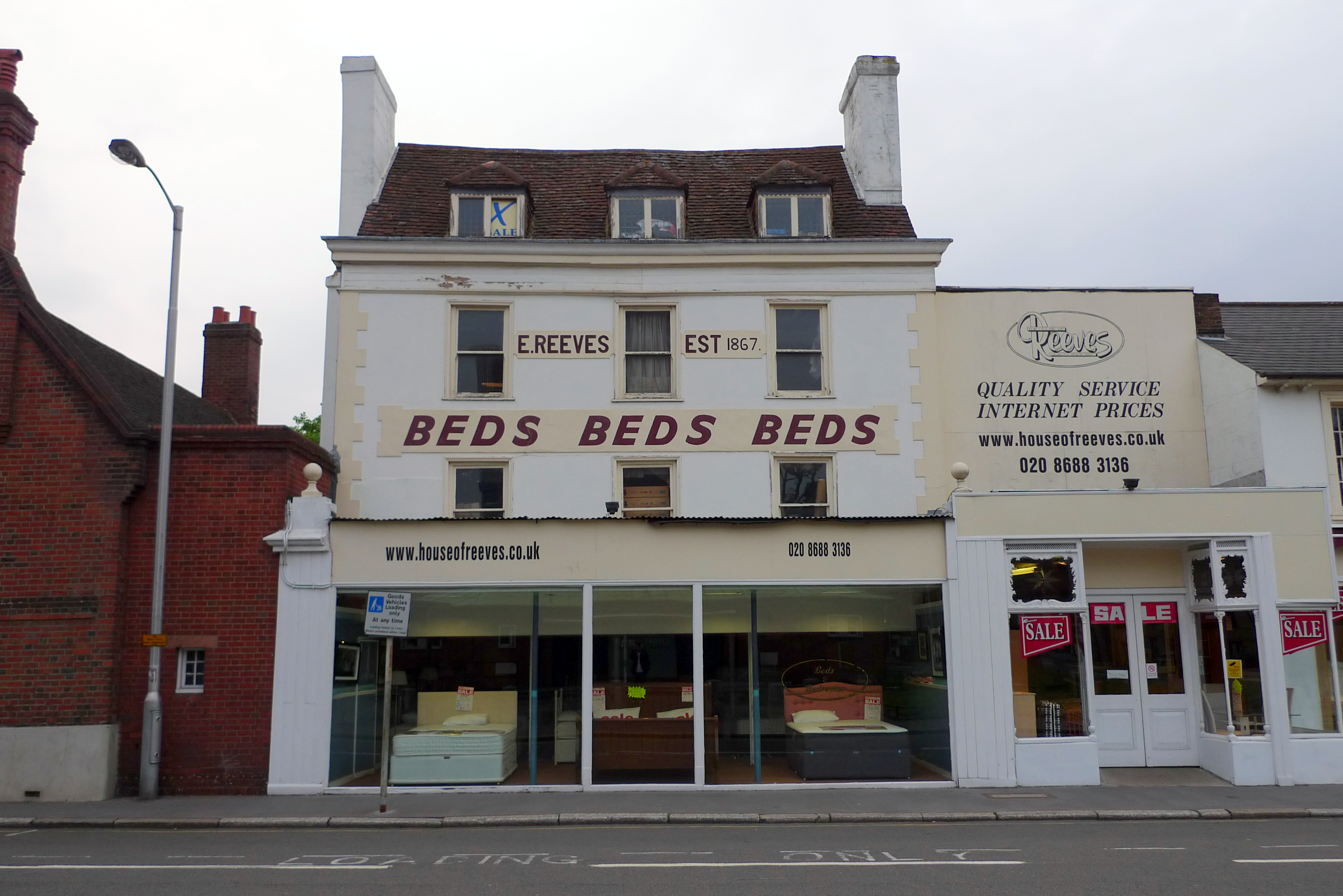 120, Church Street, Croydon. 120, South End is a Grade II listed building. It is currently in use as a furniture shop. 120 at English Heritage